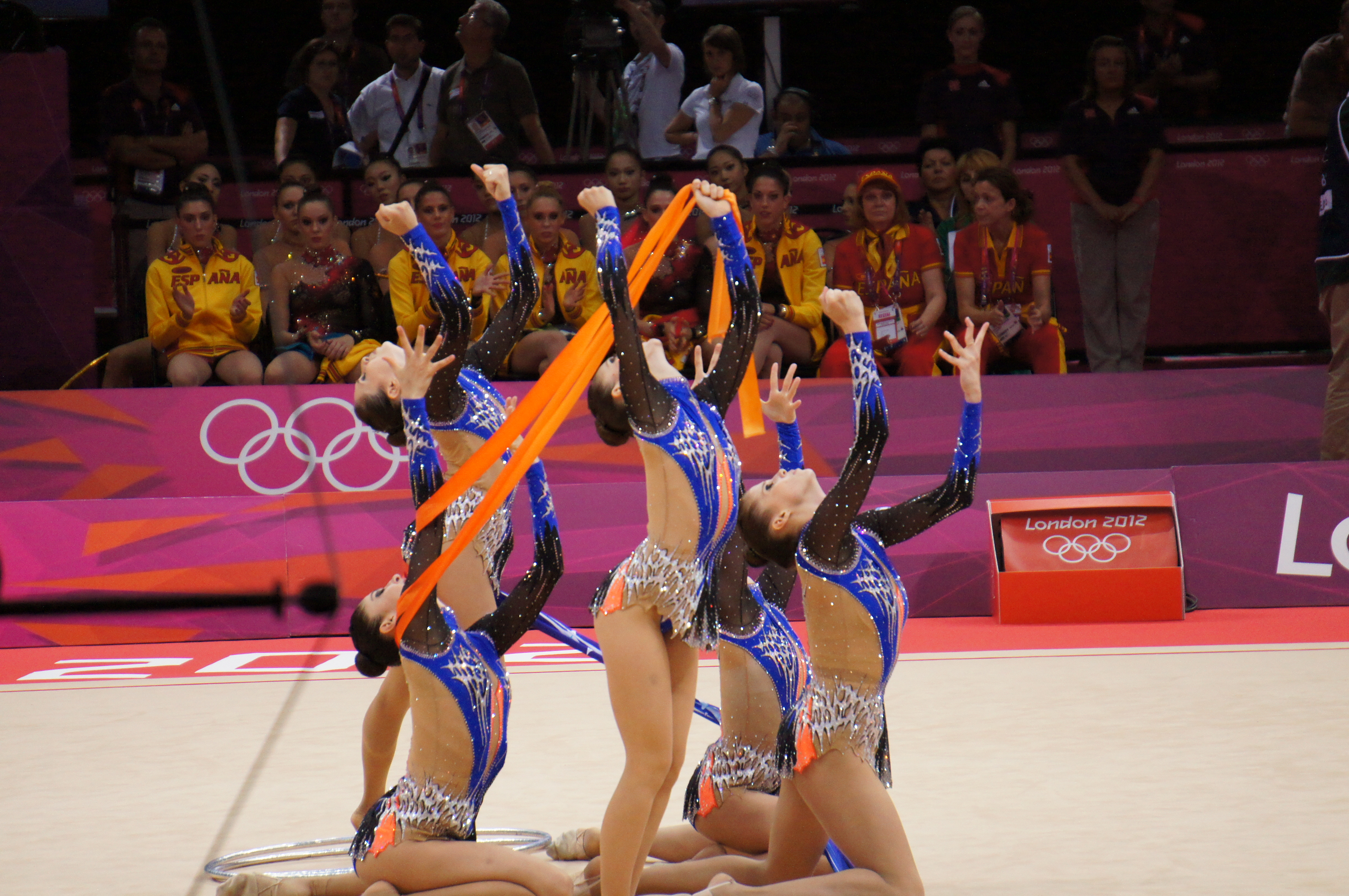 Israel Rhythmic gymnastics at the 2012 Summer Olympics